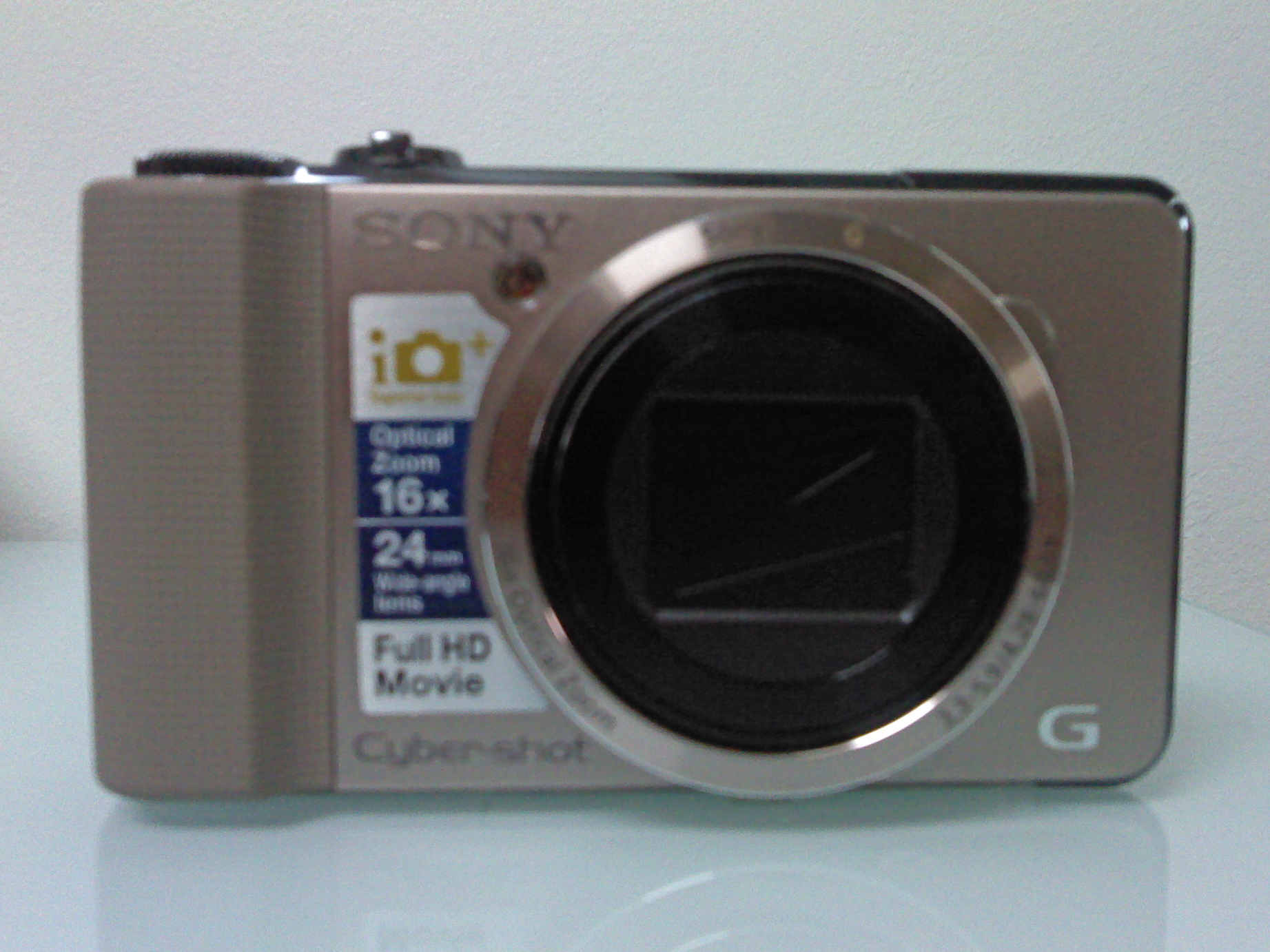 Sony DSC-HX9V (face)